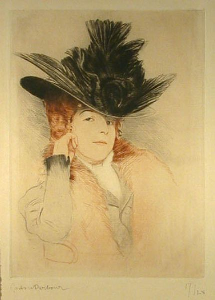 La Dame au Chapeau Color drypoint, c. 1910 9 5/8 in. x 7 1/8 in. (244 mm x 181 mm) Edition of 28